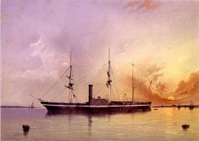 Frontispiece, chromolitho of the “Powhatan” . Taken from The Naval and Mail Steamers of the United States. Second edition. Author Charles Stuart. Publisher: Charles B. Norton, Irving House, ( 1853), New York